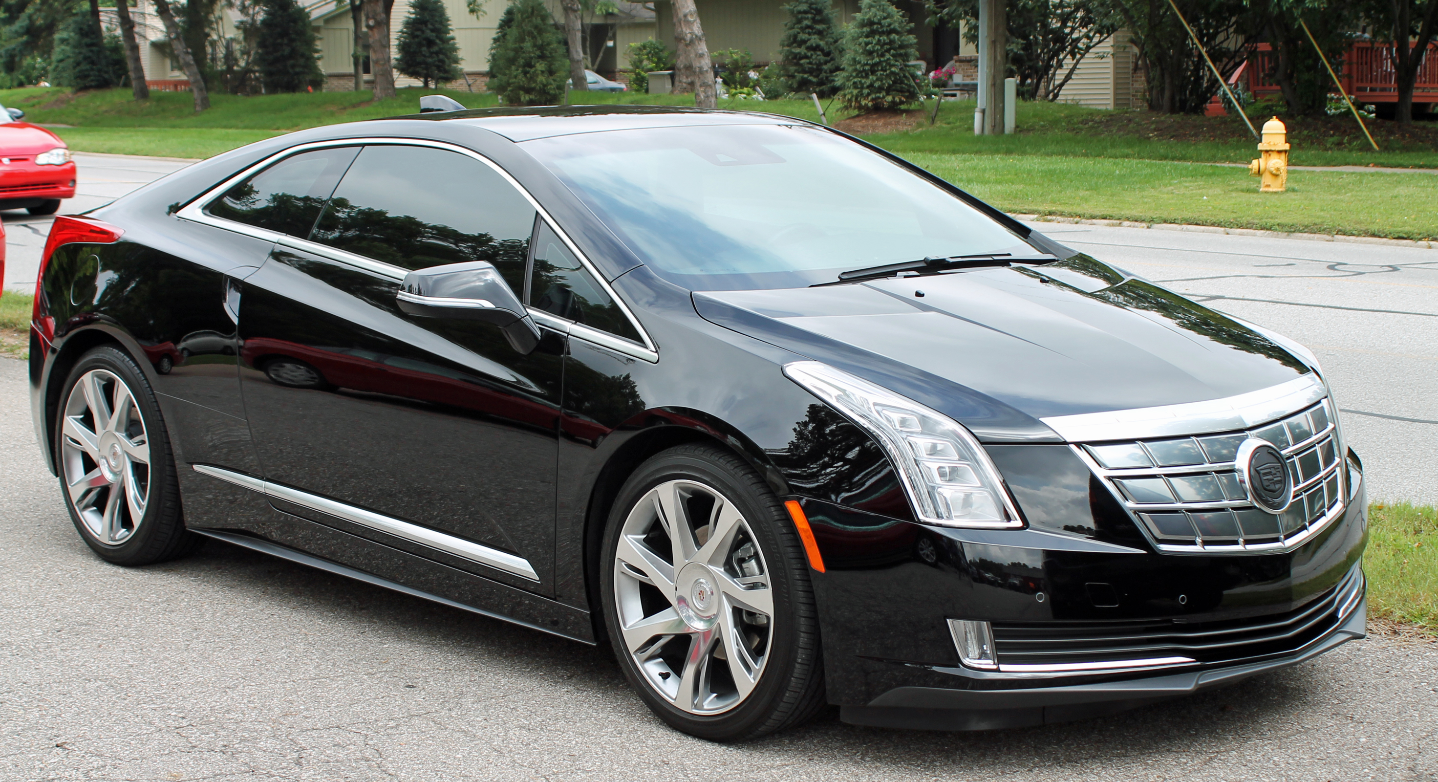 Cadillac ELR spotted parked near a classic car show in Michigan